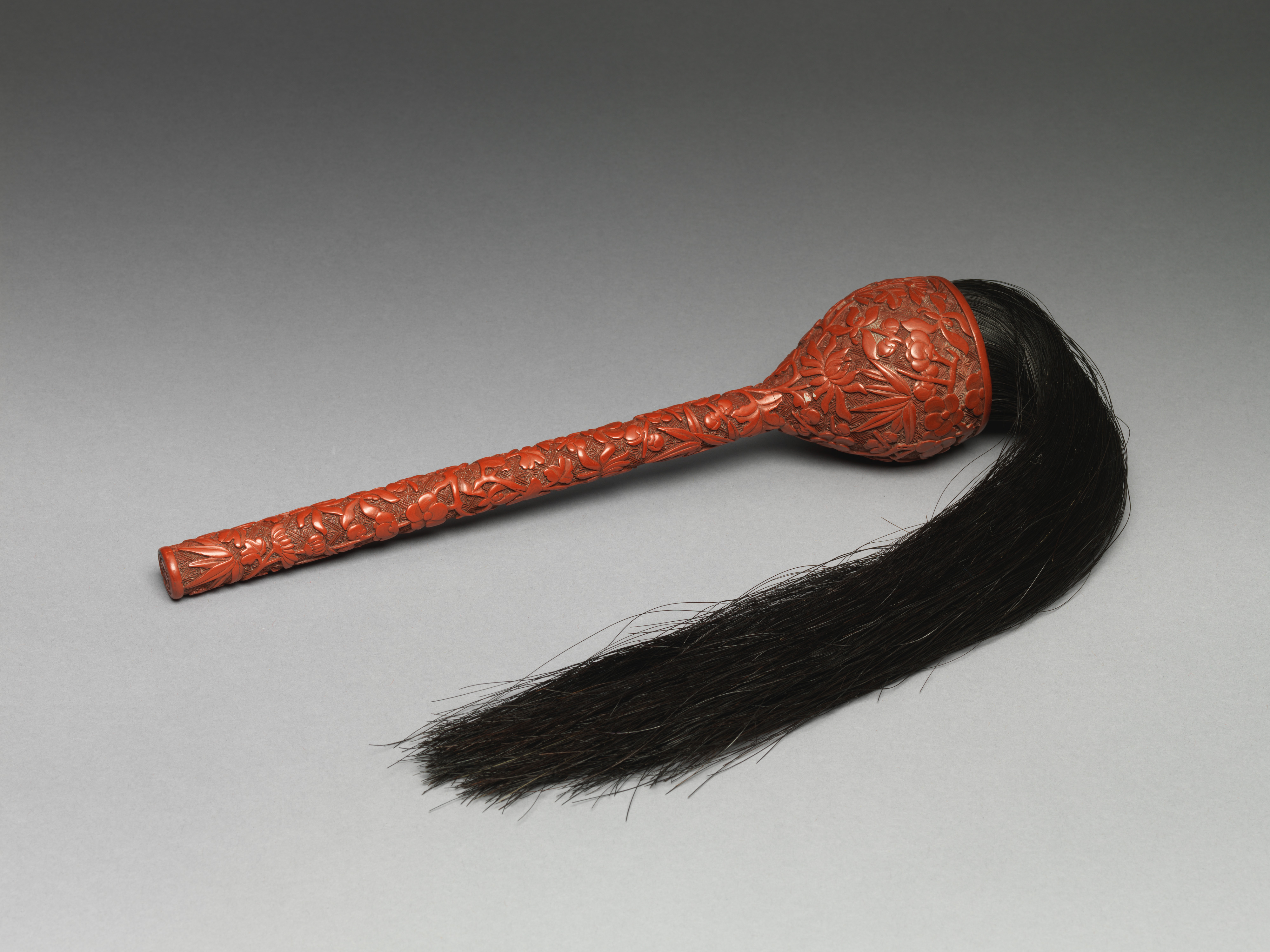 China; Fly whisk; Lacquer